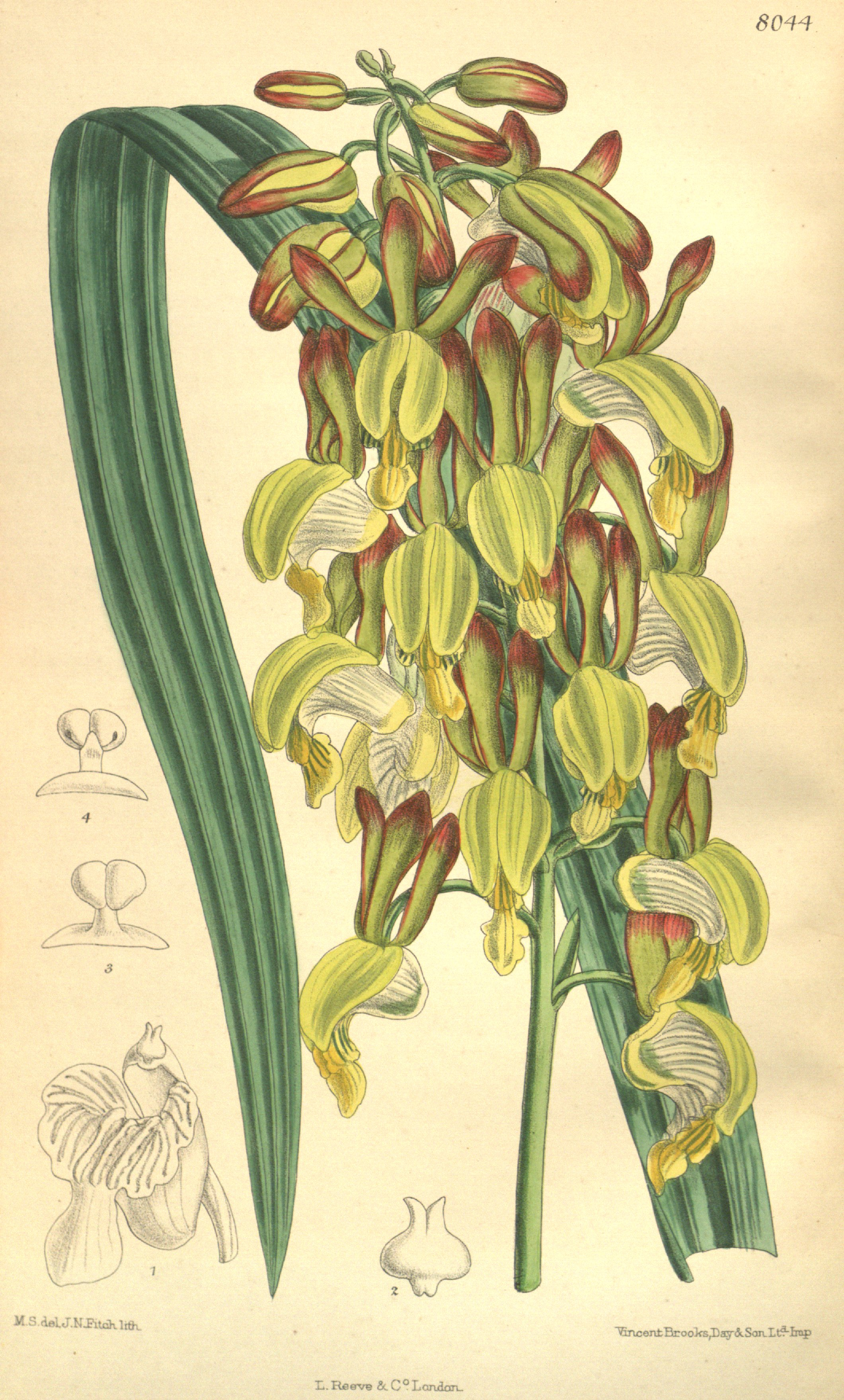 Illustration of Eulophia angolensis (as syn. Lissochilus ugandae)